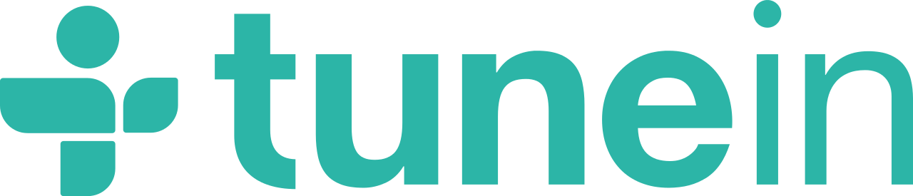 The logo of TuneIn